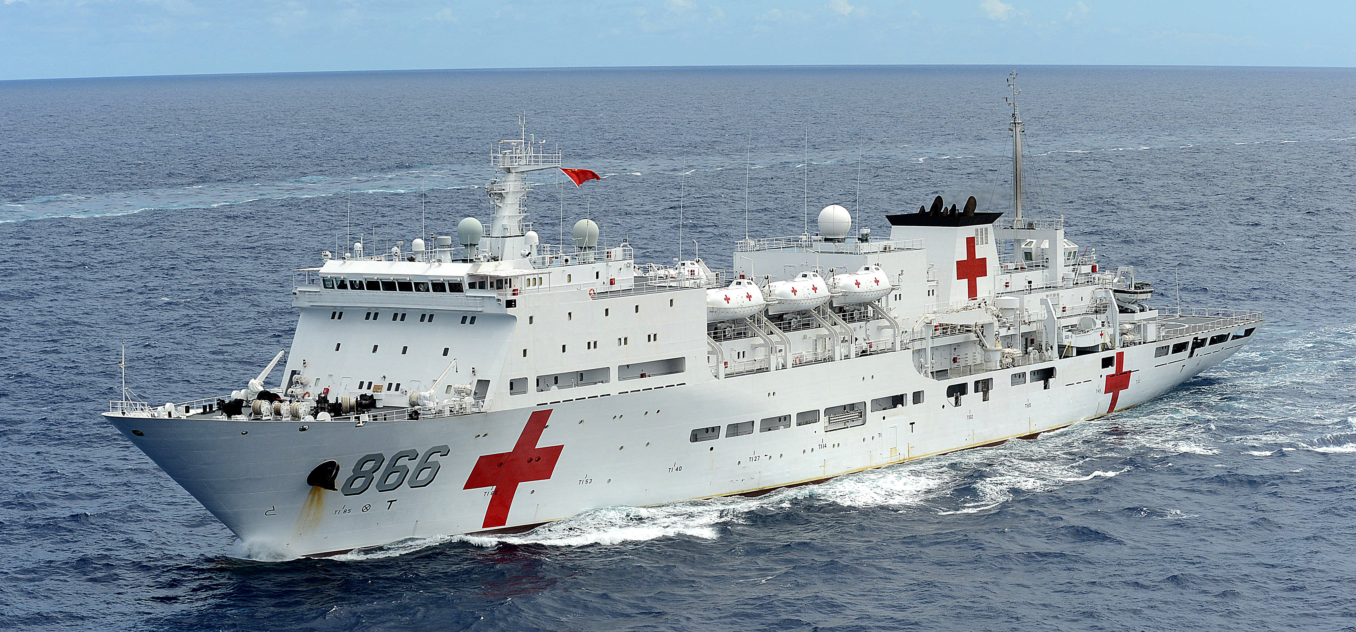 People's Republic of China, People's Liberation Army (Navy) ship PLA(N) Peace Ark (T-AH 866) steams in close formation as one of 42 ships and submarines representing 15 international partner nations during Rim of the Pacific (RIMPAC) Exercise 2014.